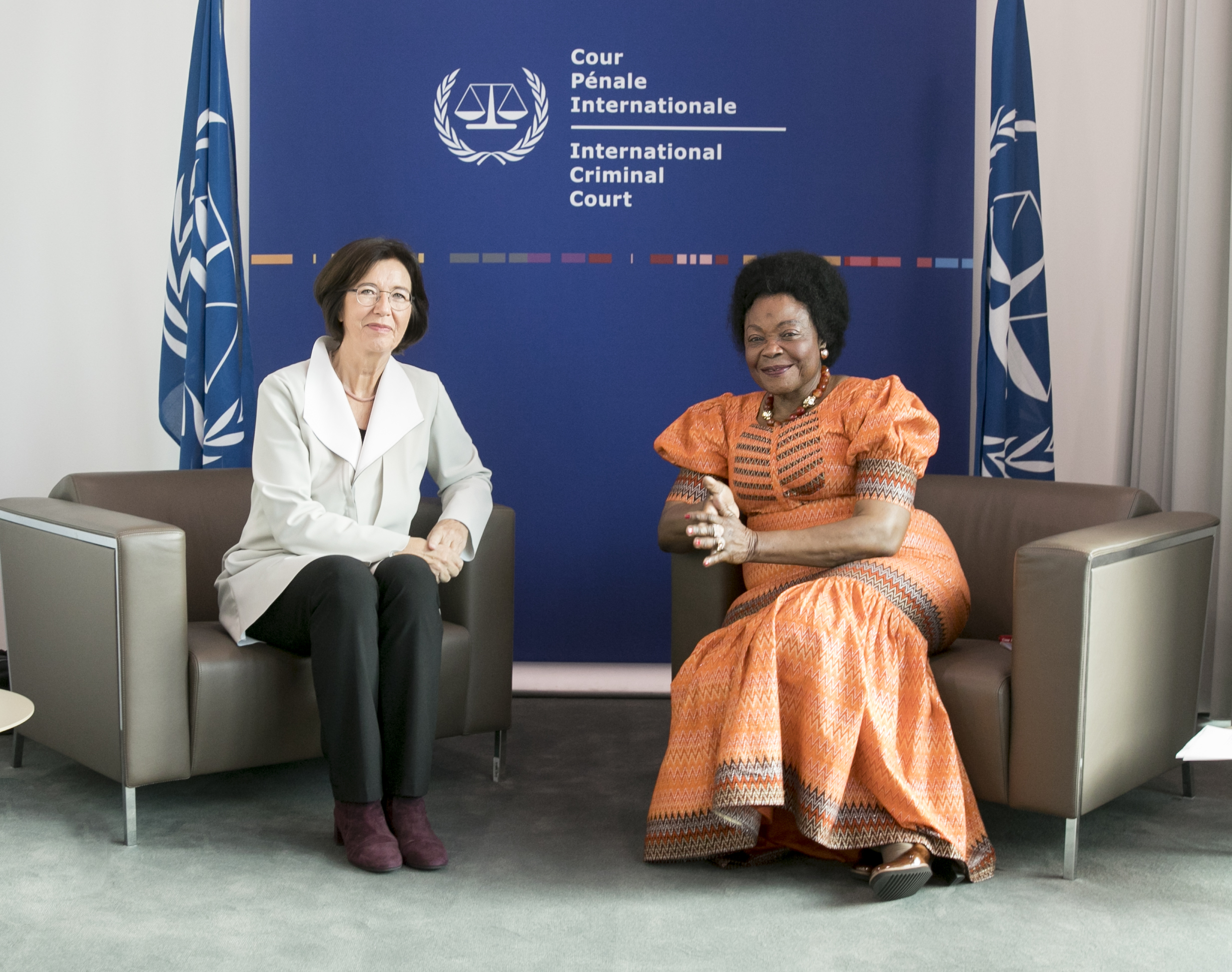 OSCE PA President Christine Muttonen with ICC First Vice-President Joyce Aluoch at The Hague